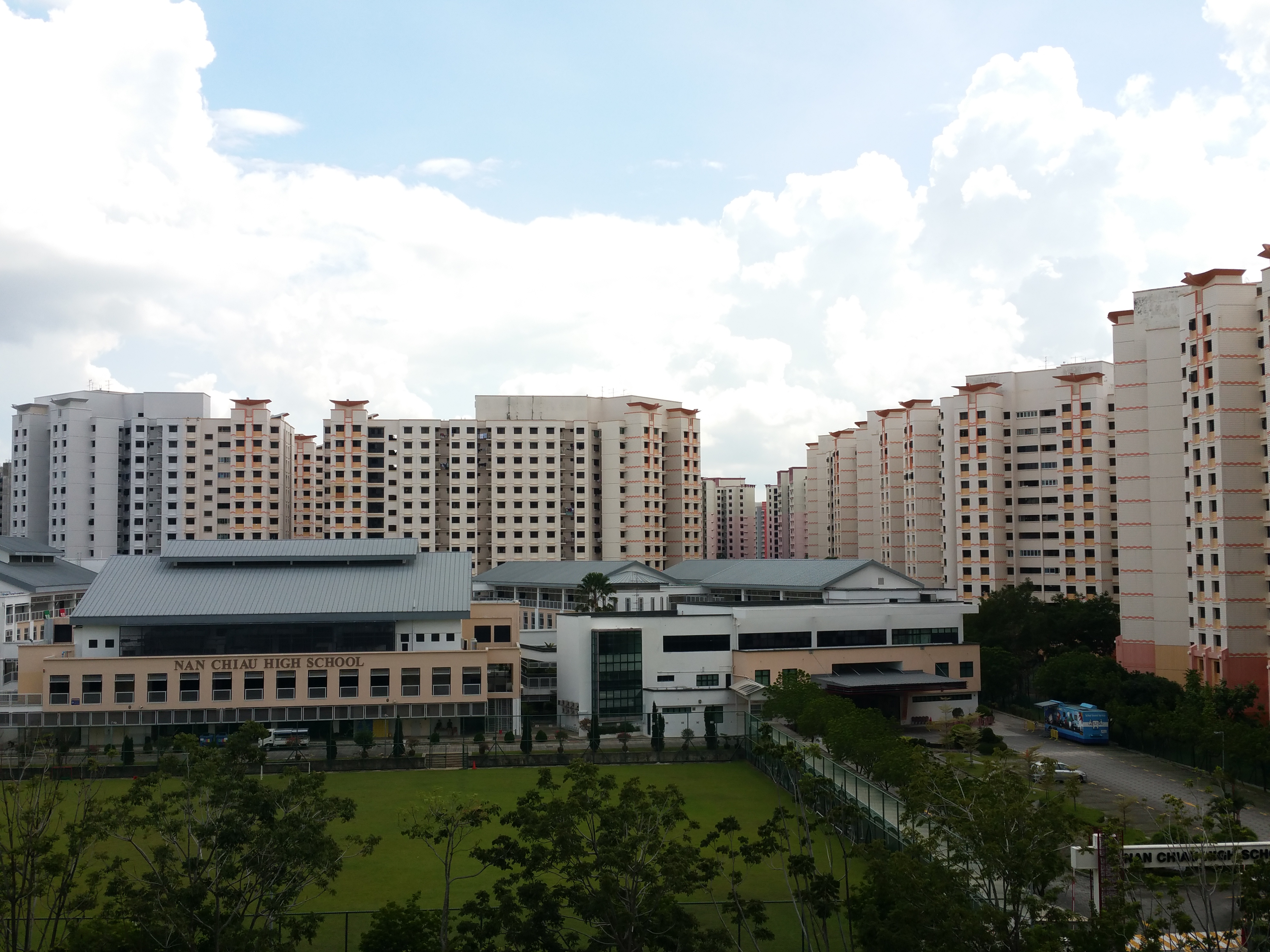 Nan Chiau High School from adjacent apartment blocks. December 2015